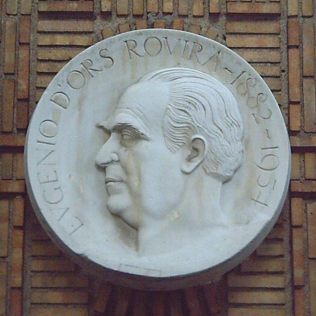 Medallion showing a profile relief of Eugeni d'Ors (1882-1954), sculpted by Frederic Marès. Detail of the western side of the monument to him at the Paseo del Prado (boulevard) in Madrid (Spain), projected by architect Víctor d'Ors (his son). Bronze figures were made by Cristino Mallo and the monument was inaugurated on July 17th, 1963.